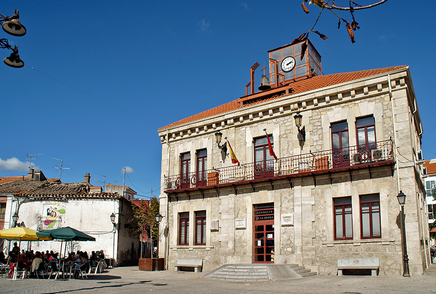 Ayuntamiento de Guadalix de la Sierra.